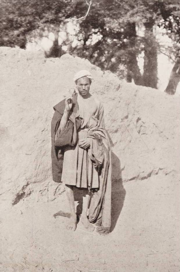 “AN UPPER EGYPTIAN PEASANT.” Photograph of a poor Egyptian man.